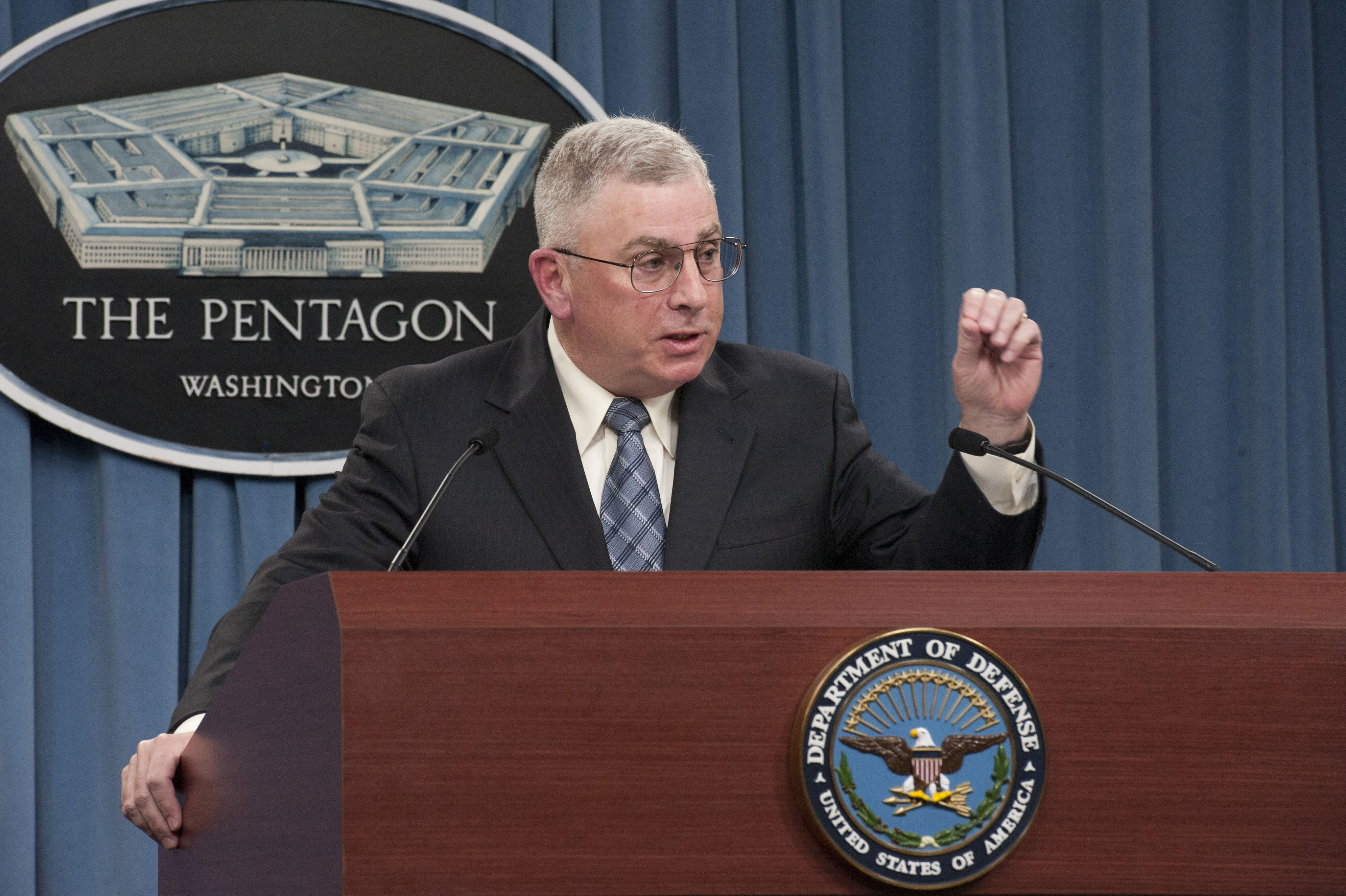 Chairman of the Defense Health Board Subcommittee retired Gen. John Abizaid briefs the press on the findings of the Dover Port Mortuary Independent Review in the Pentagon on Feb. 28, 2012.